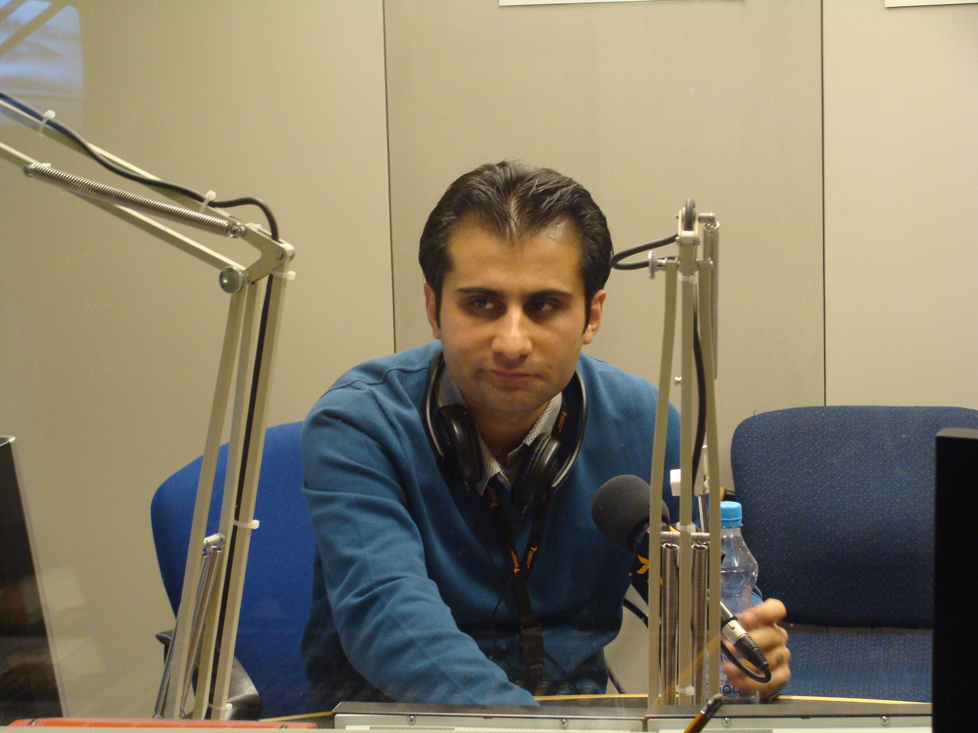 Amir Zamanifar in Radio Farda Studio